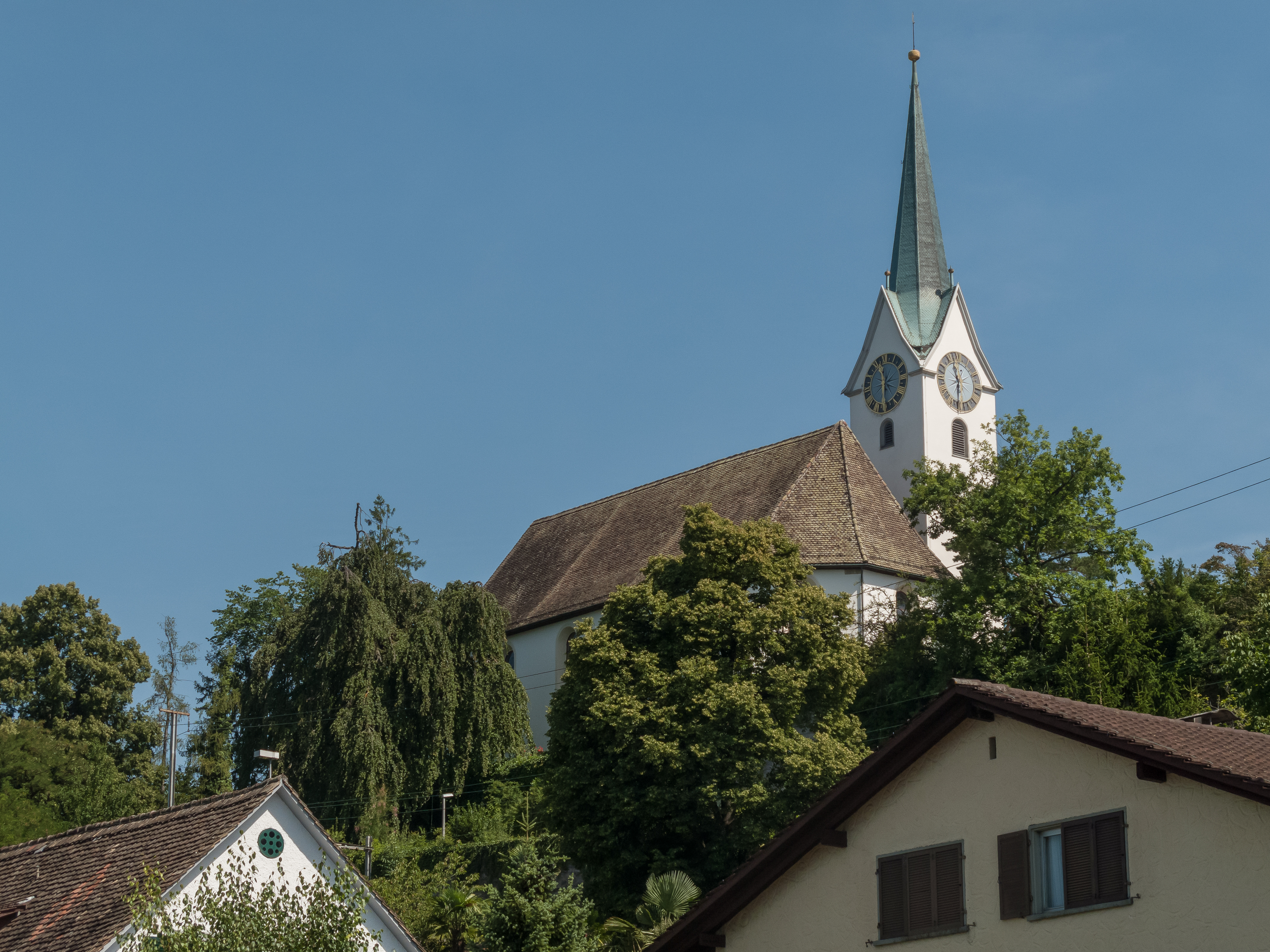 Herrliberg, reformed church